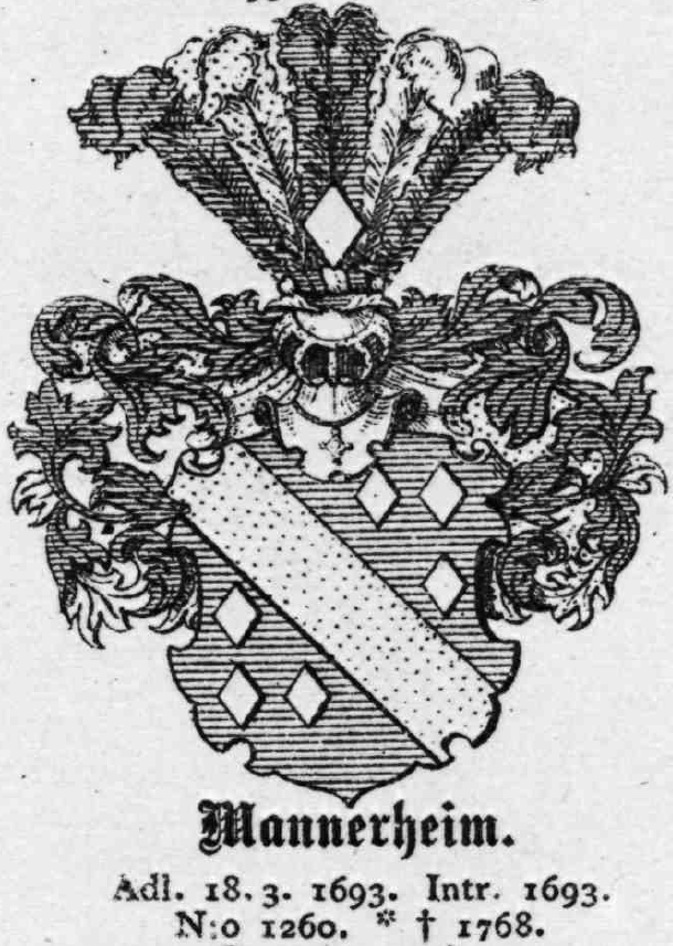 Mannarheim family arms